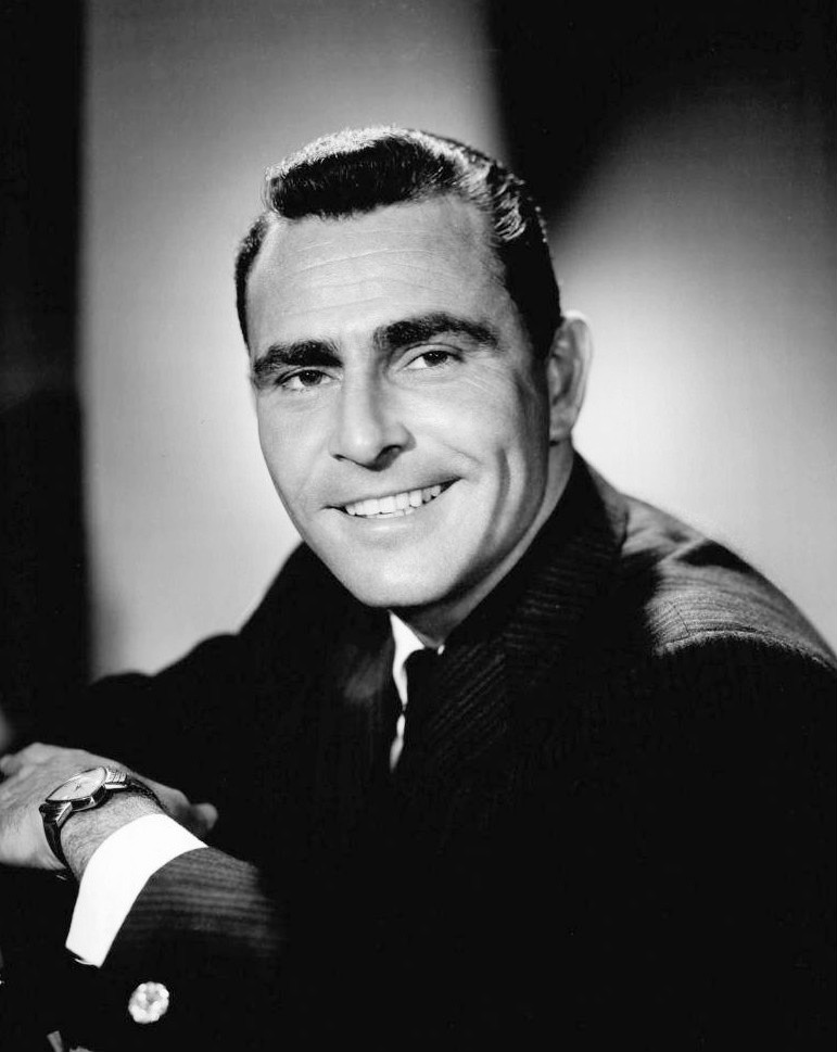 Portrait photo of Rod Serling.